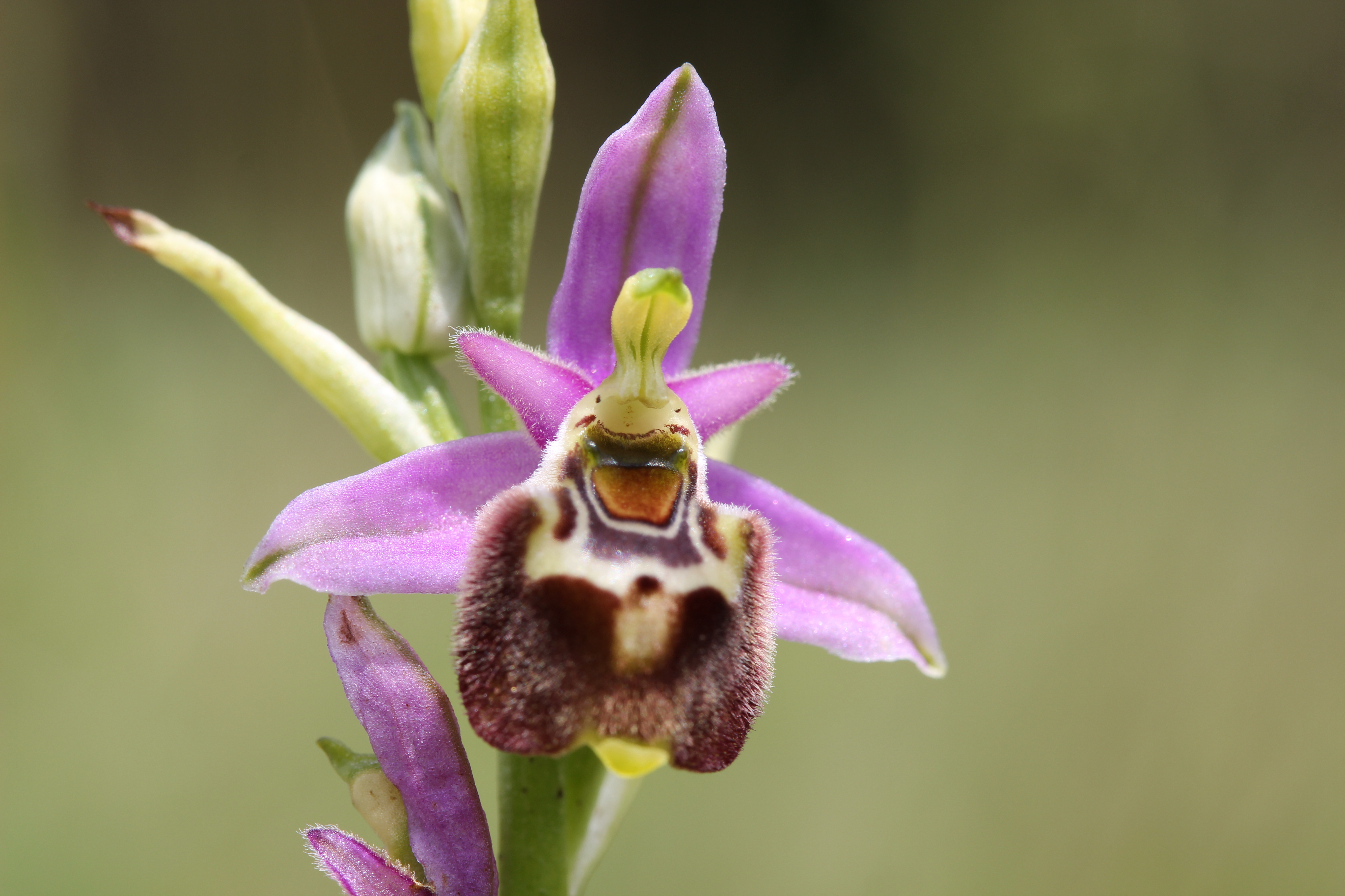 Late Spider-Orchid (Ophrys holoserica subsp. elatior) at the Allondon, GE, Switzerland